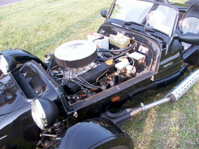 Westfield SEiGHT Engine